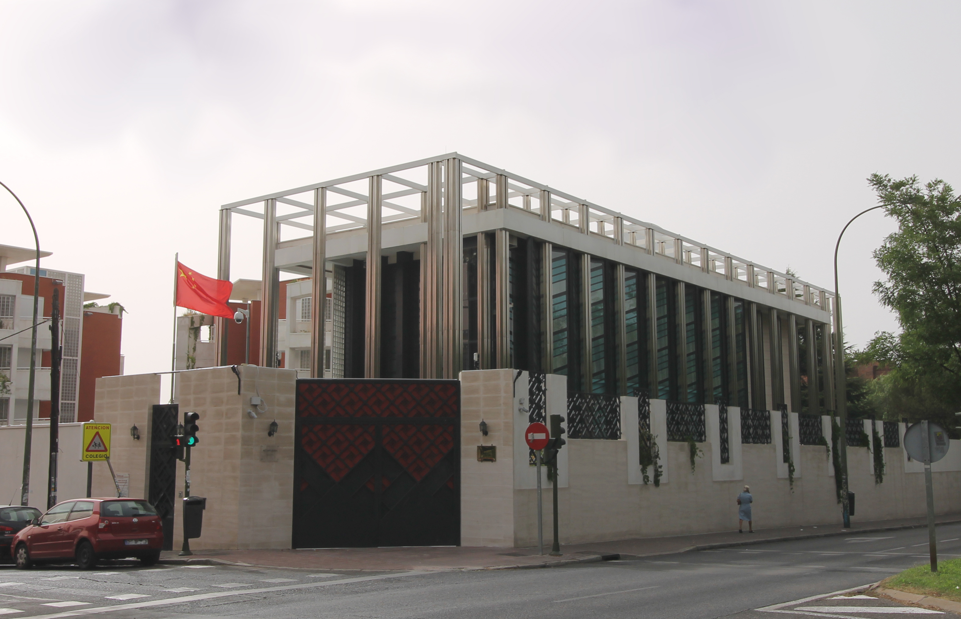 Façade of the Chinese Embassy in Madrid (Spain).